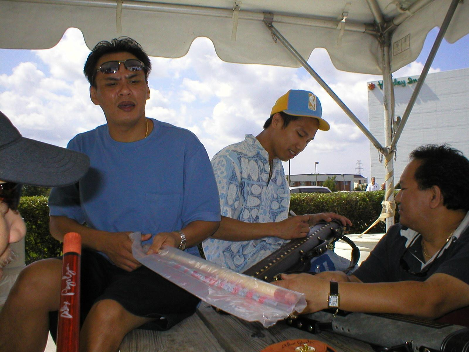 This is my personal photograph that I took with my camera and can be released to the public domain.